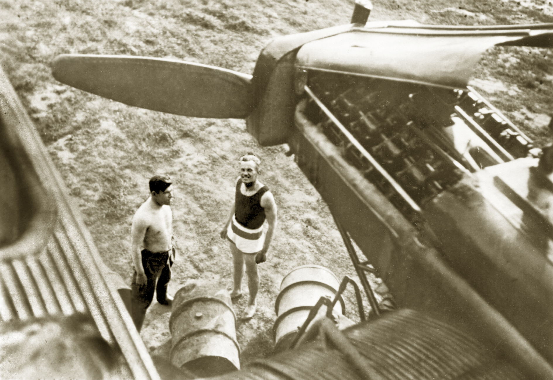 Bomber aircraft ТB-3_(ANT-6)_in_Khabarovsk